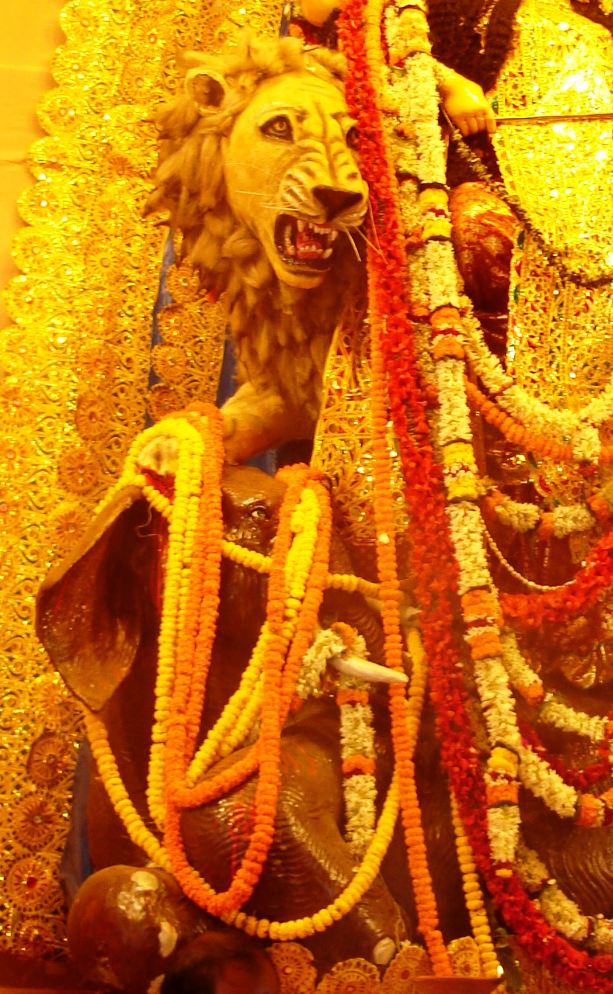 Image of Karindrasura, slain by Goddess Jagaddhatri along with her Vahana Lion, at a Jagaddhatri Puja Pandal at Central Kolkata. 2009